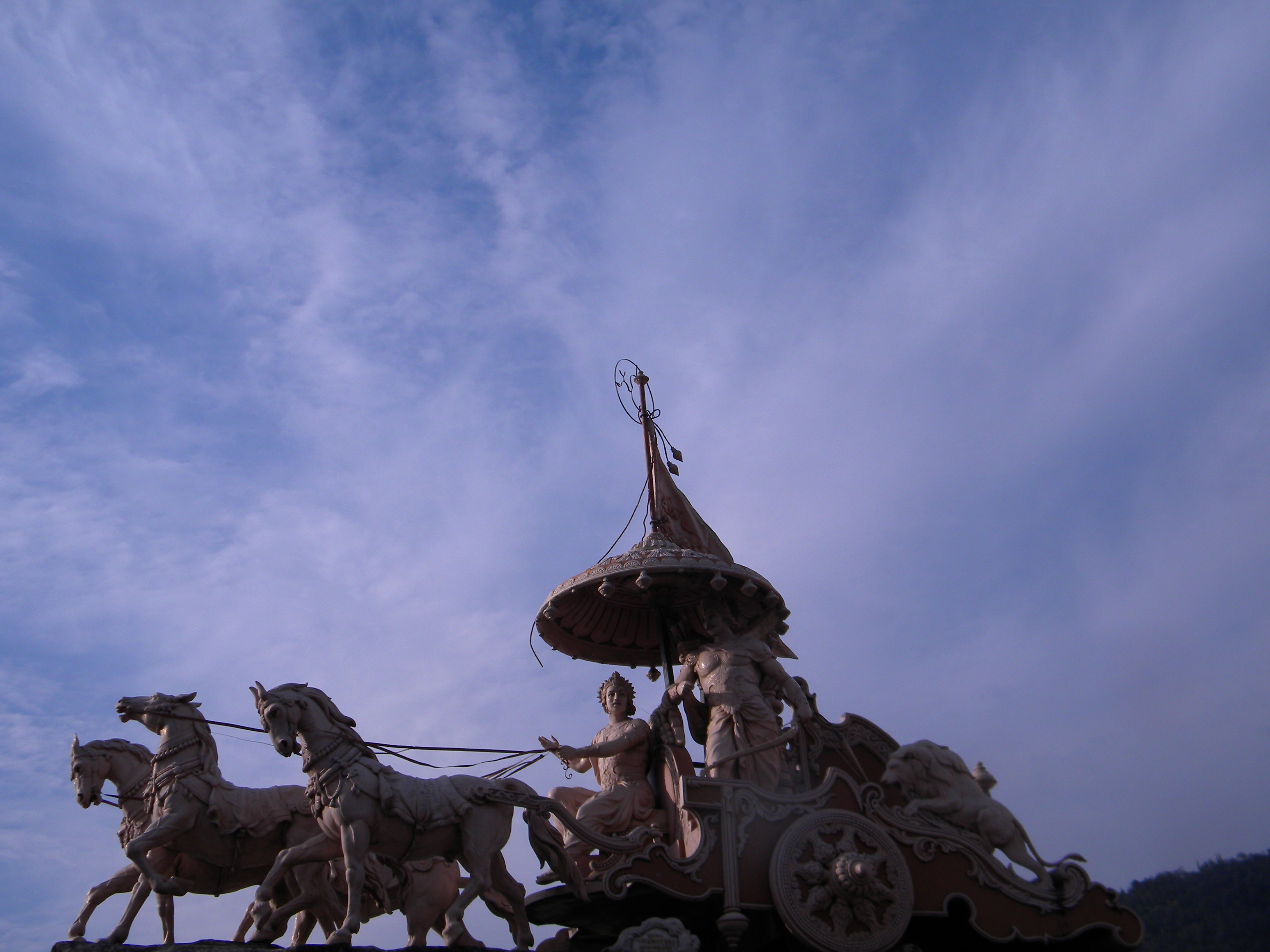 Statue of Krishna driving chariot of Arjun during Kurukshetra war in Rishikesh